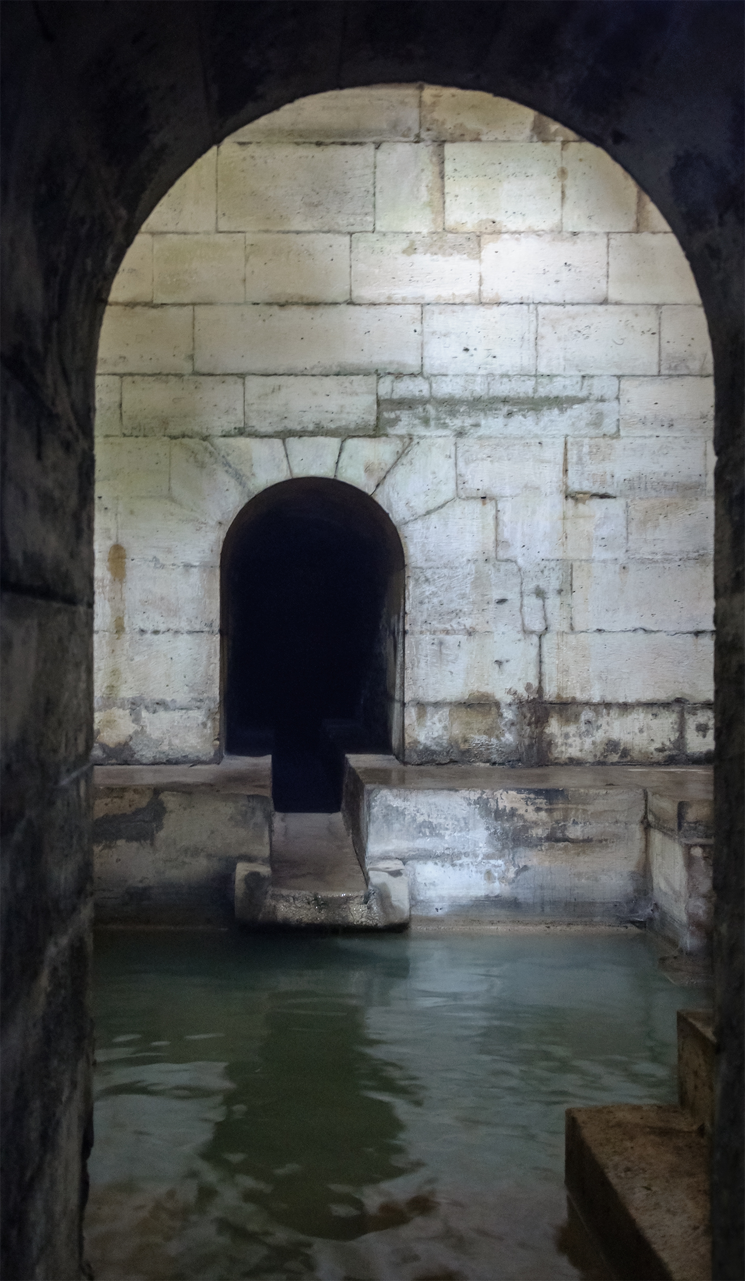 Inside the regard n. 1, so called “Regard Louis-XIII” of the Medici Aqueduct (Rungis, France) .